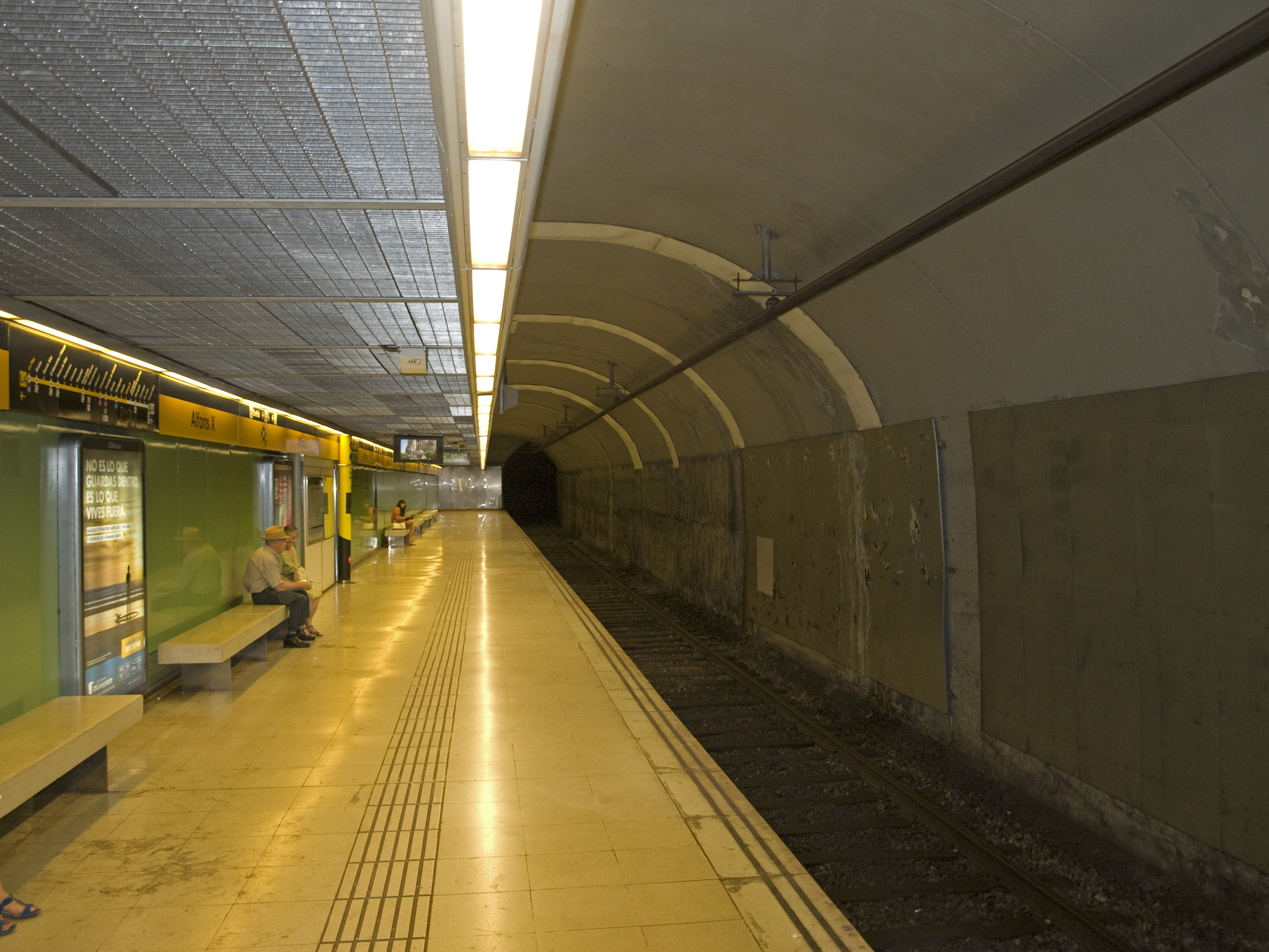 Alfons X station, line L4, southbound platform, Barcelona Metro